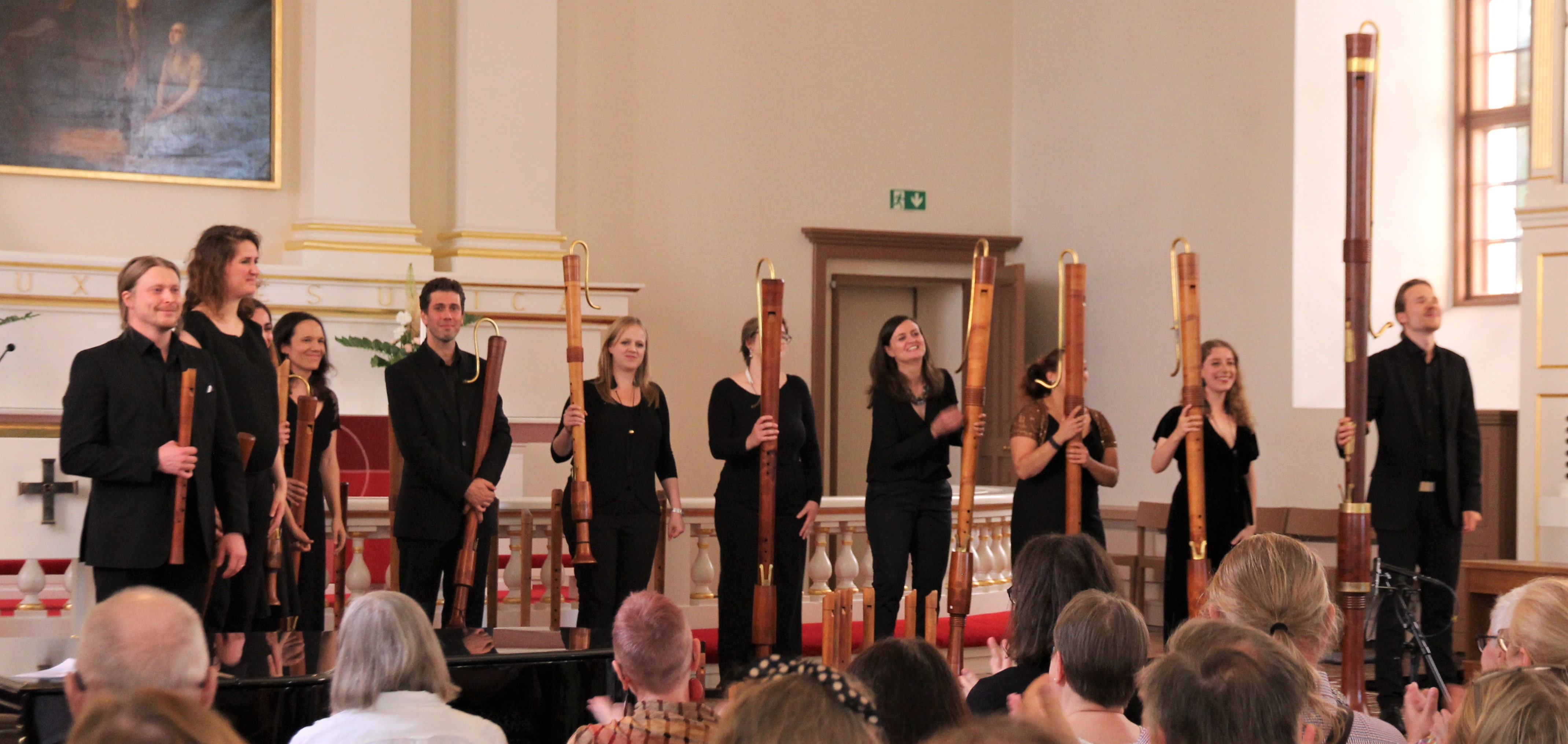 The Royal Wind Music - a Dutch recorder consort - during concert in Kuopio cathedral, July 21, 2019. Note! Both the picture and the text is published under CC-BY-SA-3.0 -license.